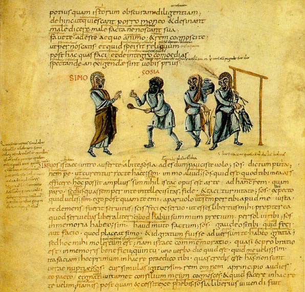 Publius Terentius Afer (Terence), Andria, Act 1, scene 1. Illustration from a medieval manuscript, codex Vaticanus Latinus 3868 (Lindsay-Kauer's codex C), folium 4 verso, perhaps created in Lotharingia (around Aachen) around AD 825.